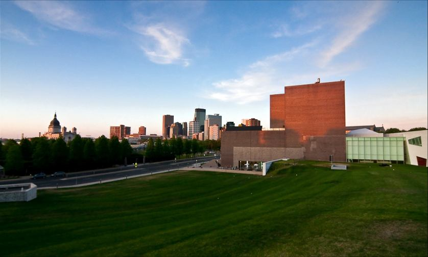 Walker Art Center in Minneapolis, Minnesota.